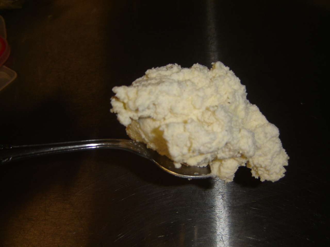 Soft Ricotta Cheese on Spoon. Taken by Deathworm 21:24, 7 May 2007 (UTC)